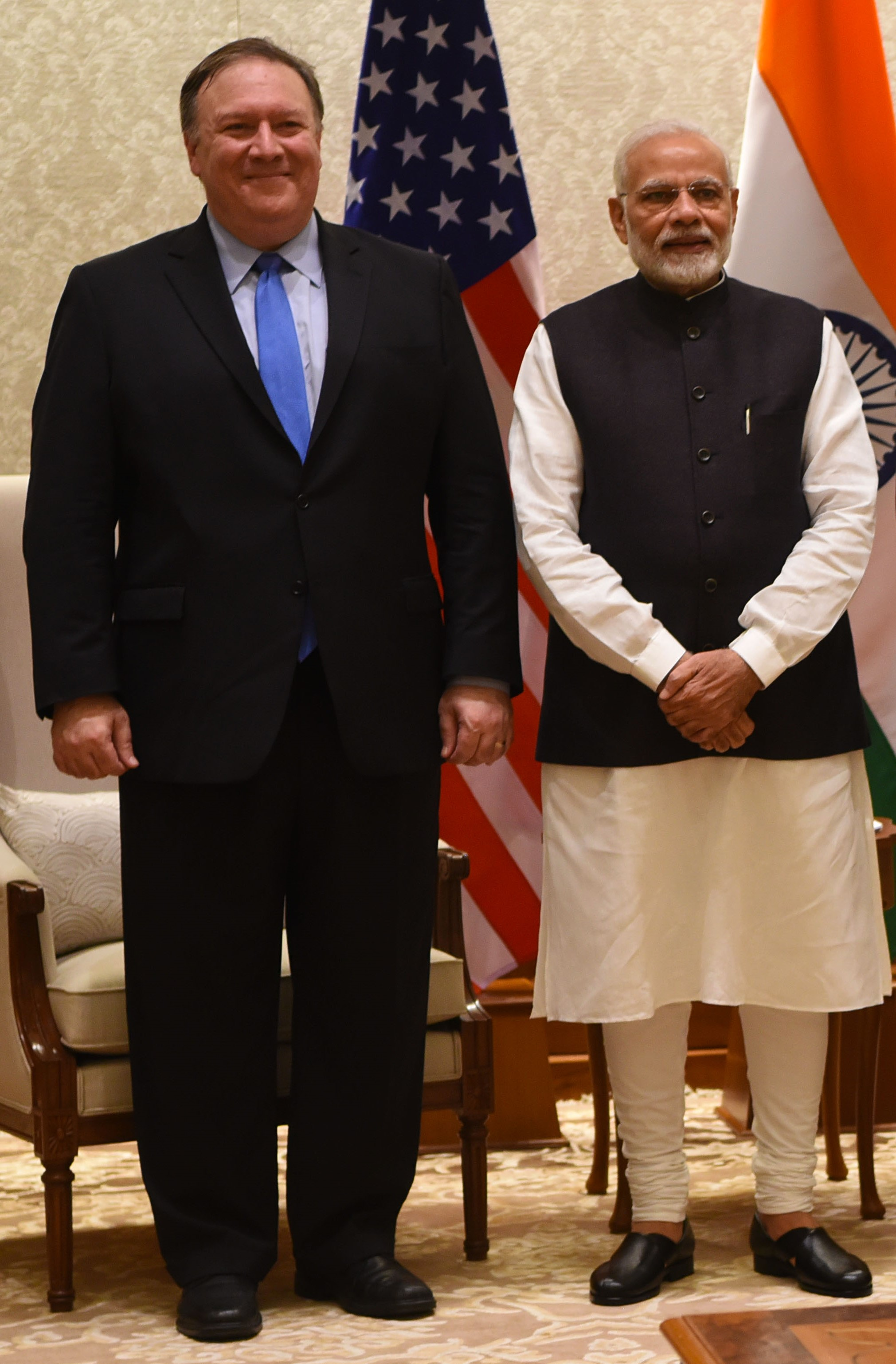 U.S. Secretary of State Michael Pompeo and Indian Prime Minister Narendra Modi at Modi’s residence, New Delhi, India, Sept. 6, 2018. Pompeo, U.S. Secretary of Defense James N. Mattis, Chairman of the Joint Chiefs of Staff Gen. Joseph F. Dunford and other top U.S. officials met with Modi following the first ever U.S.-India 2+2 ministerial dialogue, where Mattis and Pompeo met with their Indian counterparts. DoD photo by Lisa Ferdinando